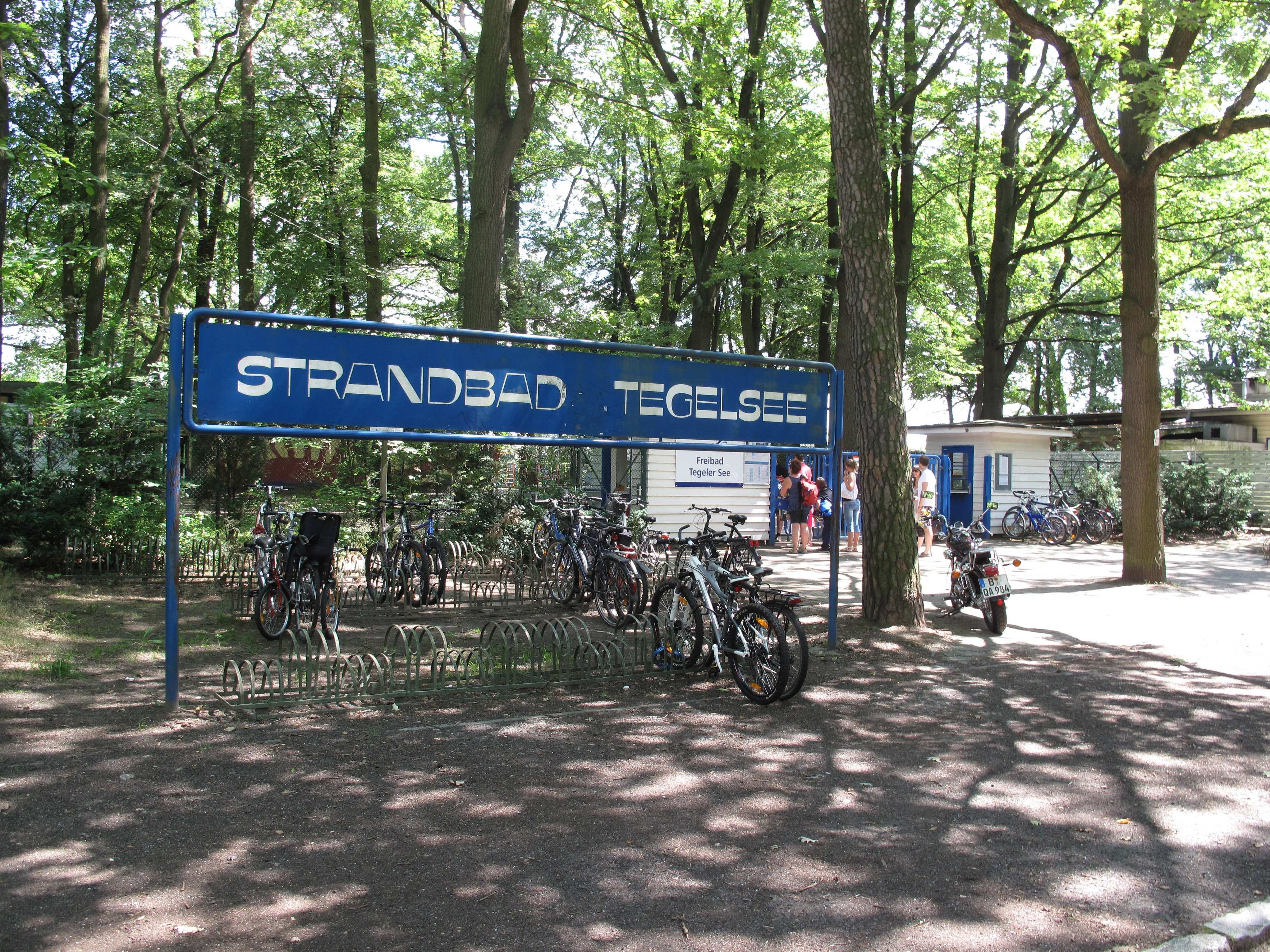 The „Freibad Tegeler See“, also known as „Strandbad Tegelsee“ or „Strandbad Tegel“, is a public open air bath in the locality Tegel, Borough Reinickendorf, Berlin. It is situated at the western bank of the Lake Tegel in the Forest Tegel, opposite the isle Lindwerder. The bath was opened in 1932 .